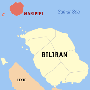 Map of Biliran showing the location of Maripipi